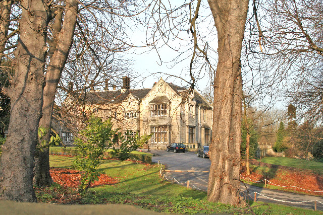 Monk Fryston Hall Hotel Monk Fryston Village.